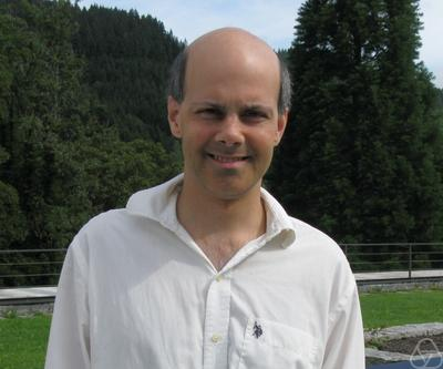 Photo of Bjorn Poonen